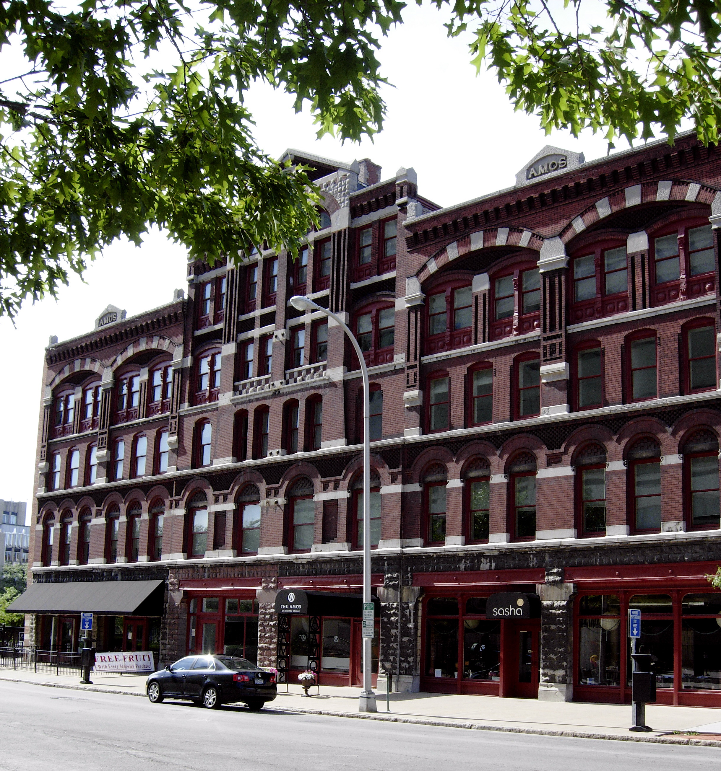 The Amos Building in downtown Syracuse, NY